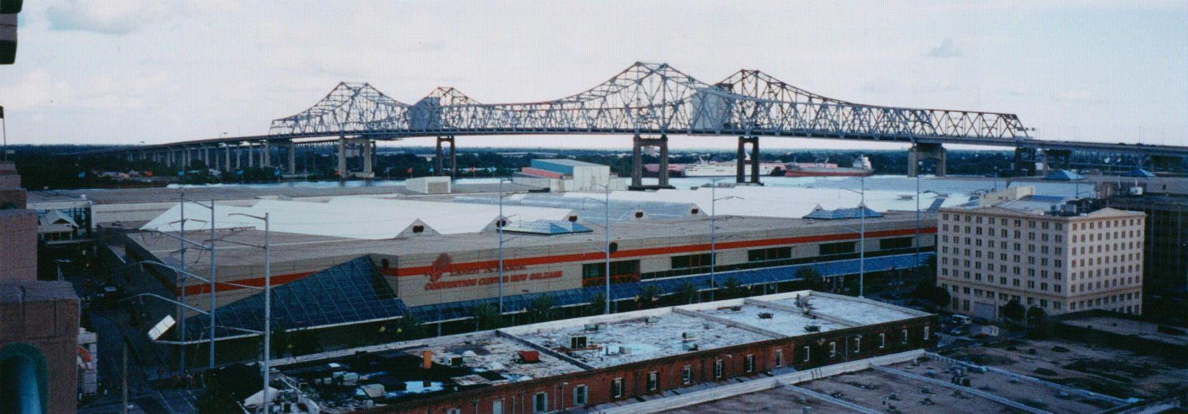 I took this photo myself in 2001 from the balcony of a hotel. It shows the New Orleans Morial Convention Center, and in the background, the Crescent City Connection bridge over the Mississippi River.